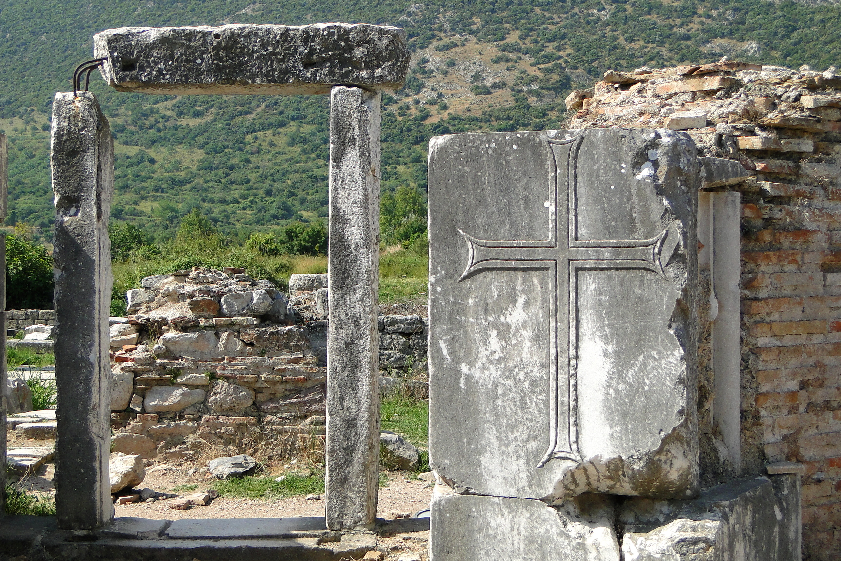 Church of Mary - Efes (Ephesus) - Turkey - 02